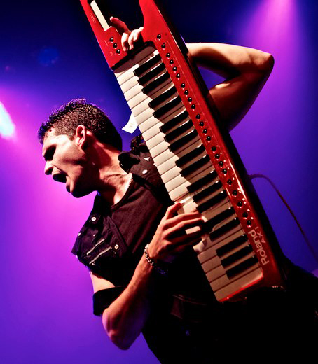 Jesús M. Toribio in Madrid (Live with Phoenix Rising)